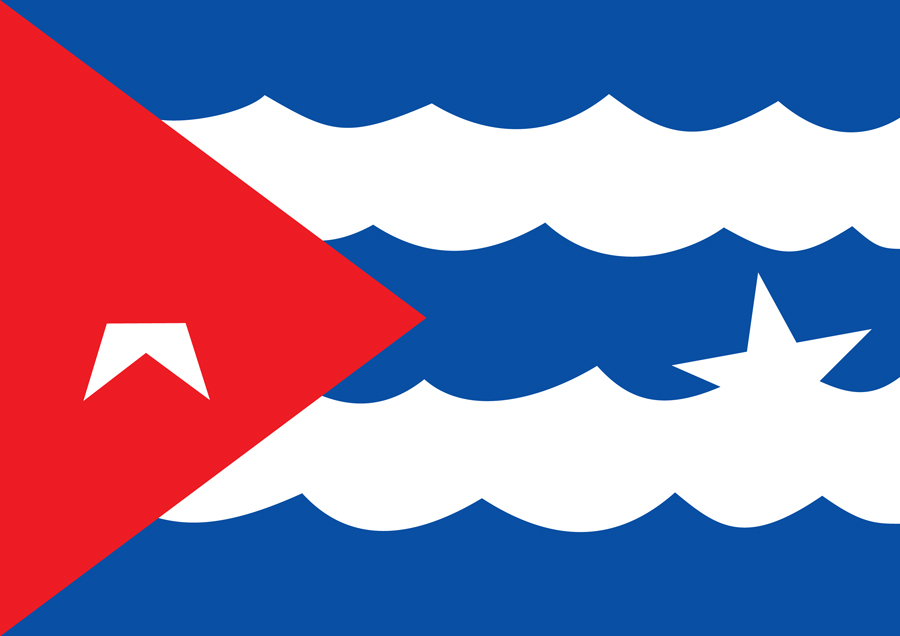 Eduardo Sarmiento, Malecon. Silkscreen, 50x70 cm. Designed in 2002, printed in 2012